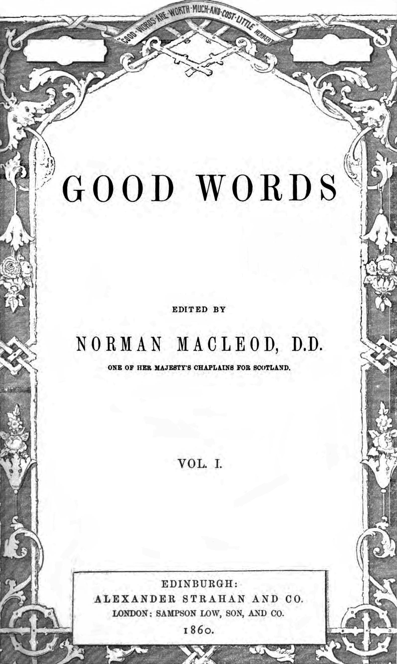 Title page to Volume 1 of Good Words